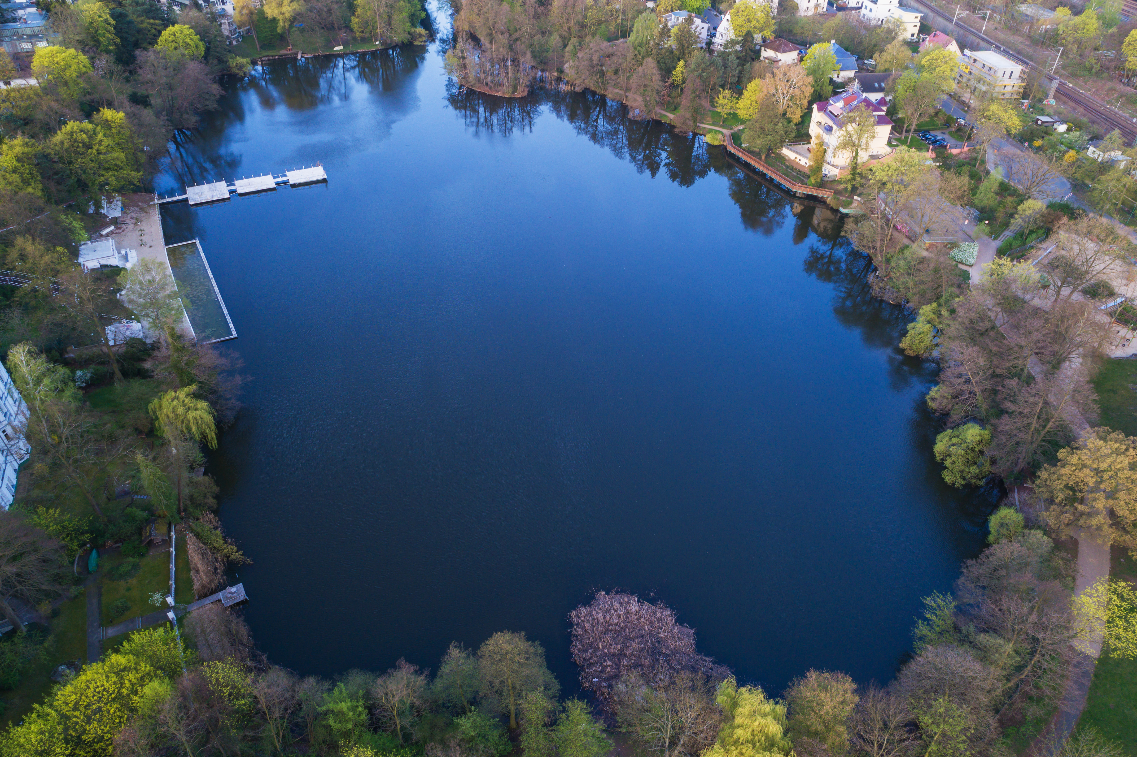 Aerial view of Lake Halensee in Berlin (Germany)